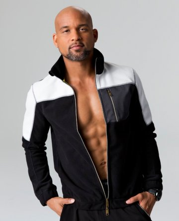 Shaunt Apparel